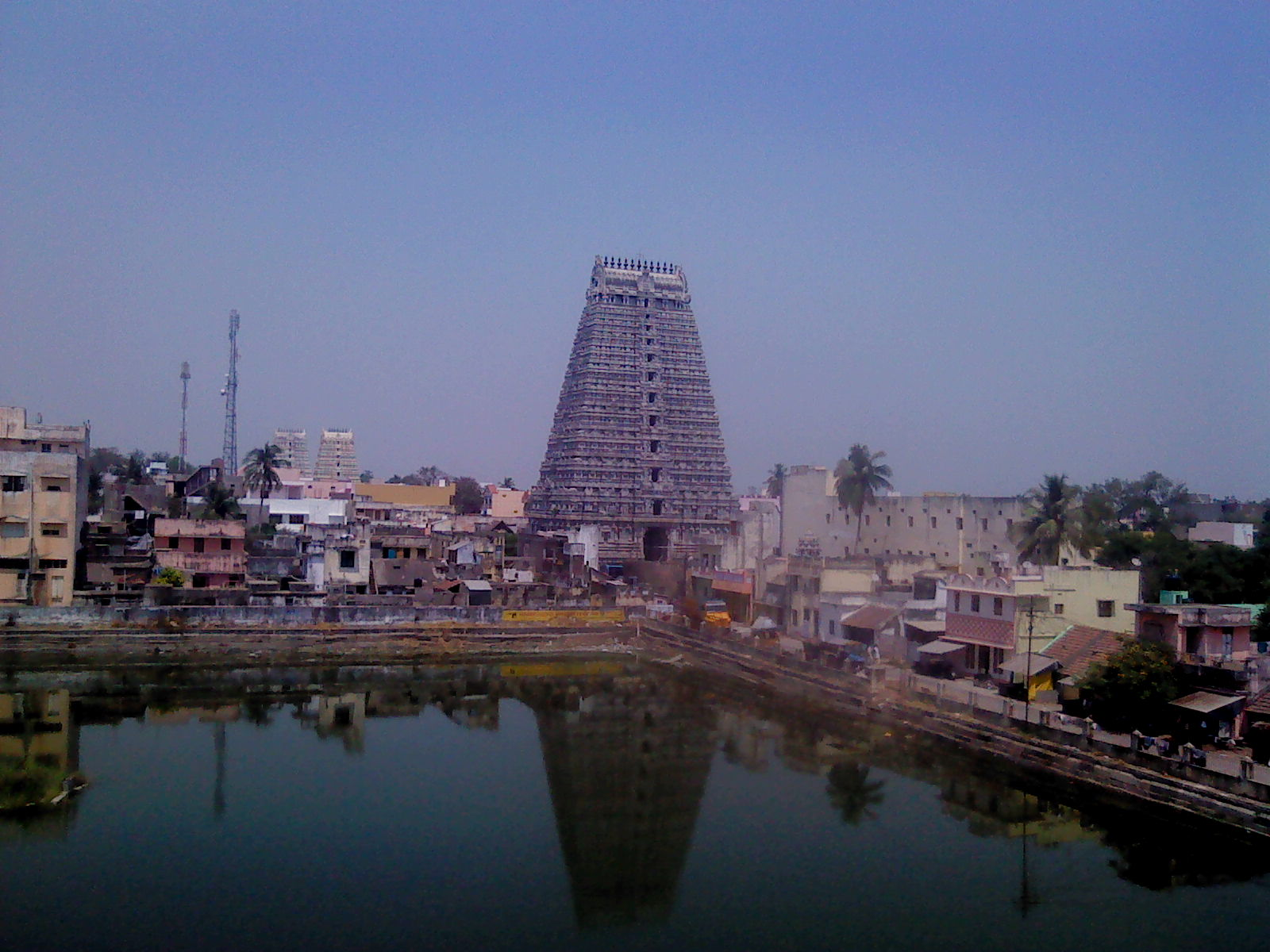 a view of temple